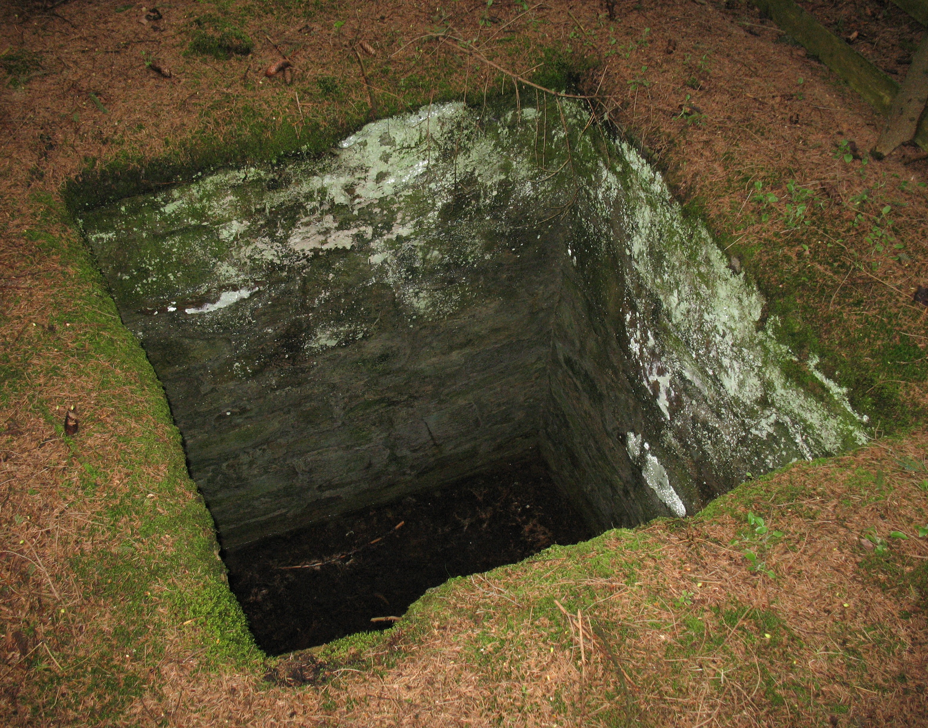 Interior view of Wolf trap near Sehmatal-Neudorf, Erzgebirge